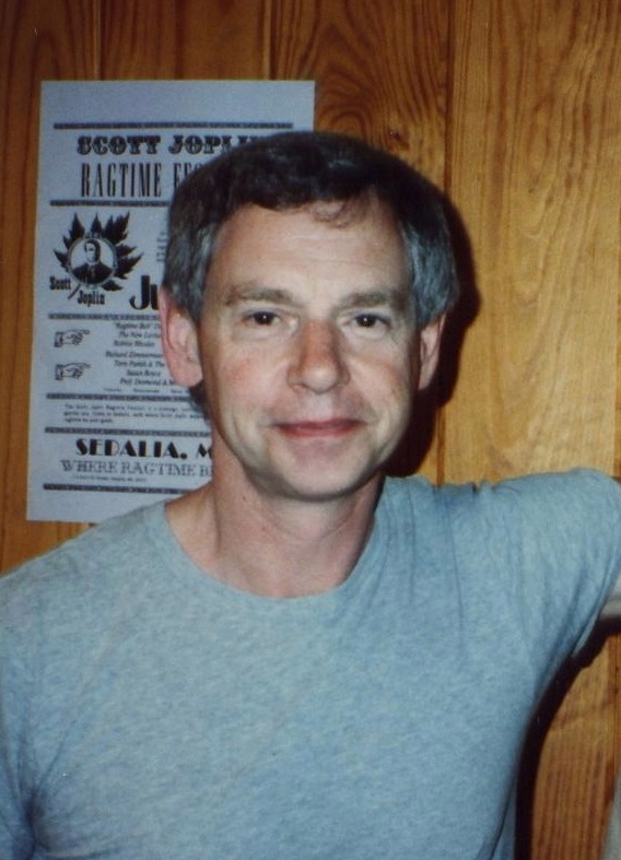 Ian Whitcomb at 1990 "Scott Joplin Ragtime Festival", Sedalia, Missouri.